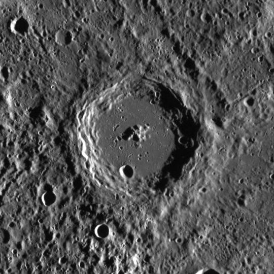 Dvorák crater, on Mercury. MESSENGER Wide Angle Camera mosaic. Image is approximately 177 km wide.